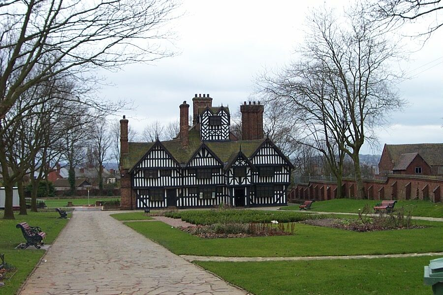 Photo taken by myself